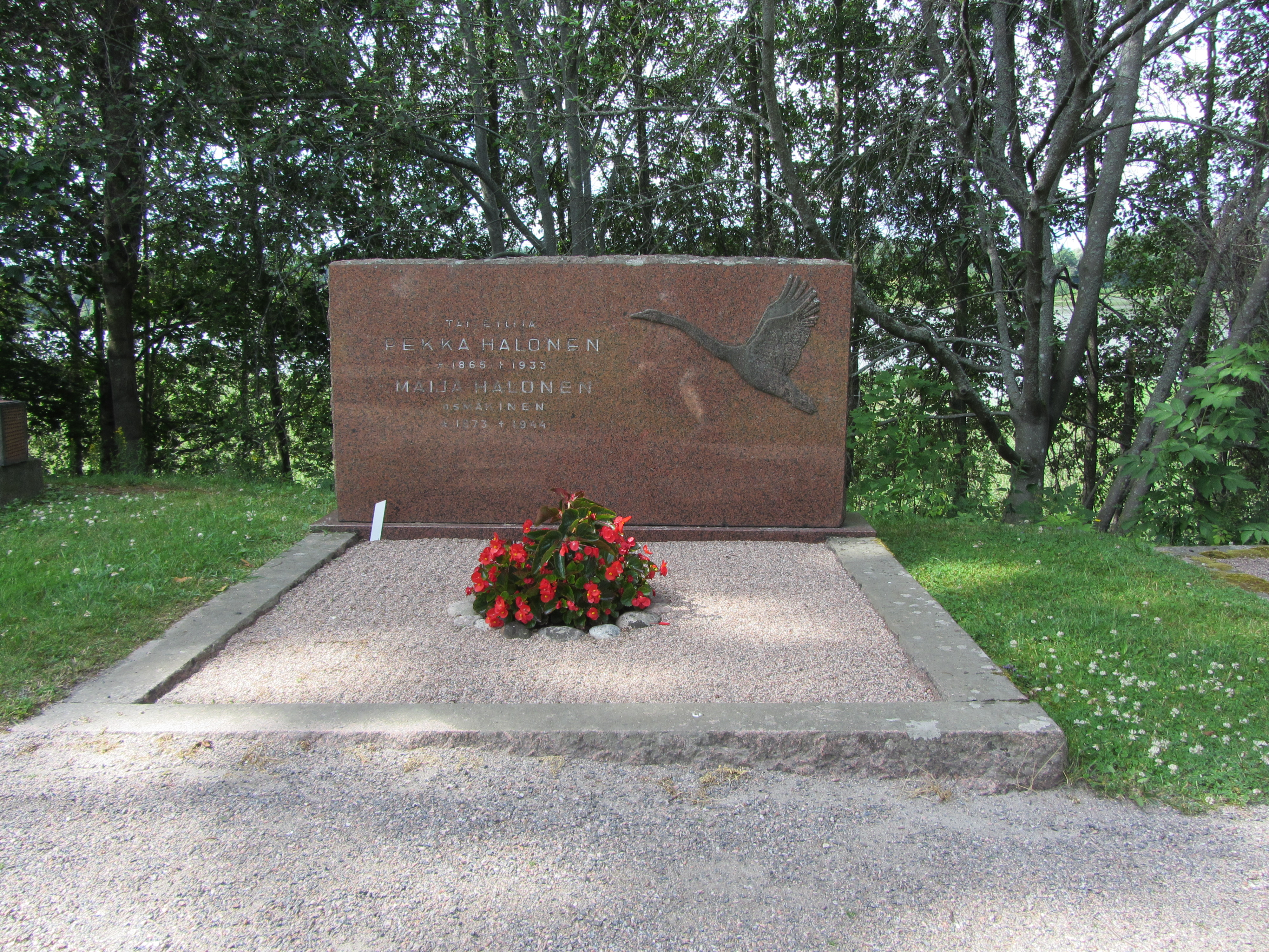 The Grave of the Finnish painter Pekka Halonen and his wife in the church yard of Tuusula Church